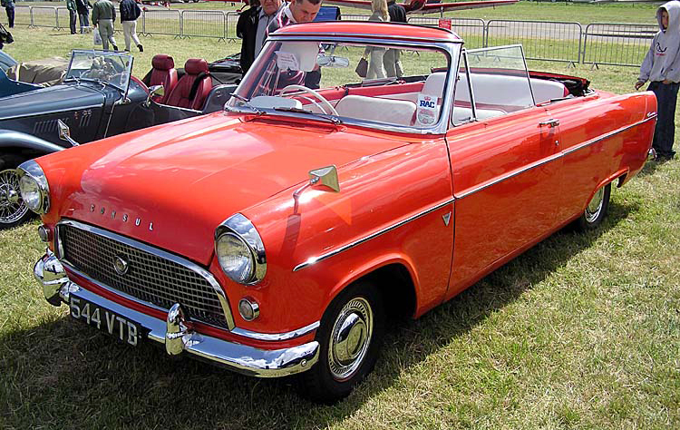 Ford Consul Mk2 at Kemble Airfield, Kemble, Gloucestershire, England. Date first registered 15 June 1961. Year of manufacture 1961 according to English government database.